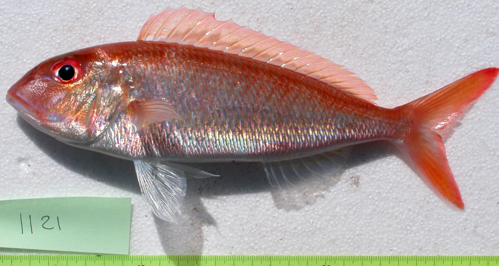 Nemipterus furcosus (Nemipteridae). Locality: off Nouméa, between Ilot Maître and Ilot Signal New Caledonia. Fork Length 230 mm, Weight 216 grams. Date 2004-05-27. Specimen in the collections of the Muséum National d'Histoire Naturelle, Paris, France, specimen number MNHN 2005-0768.